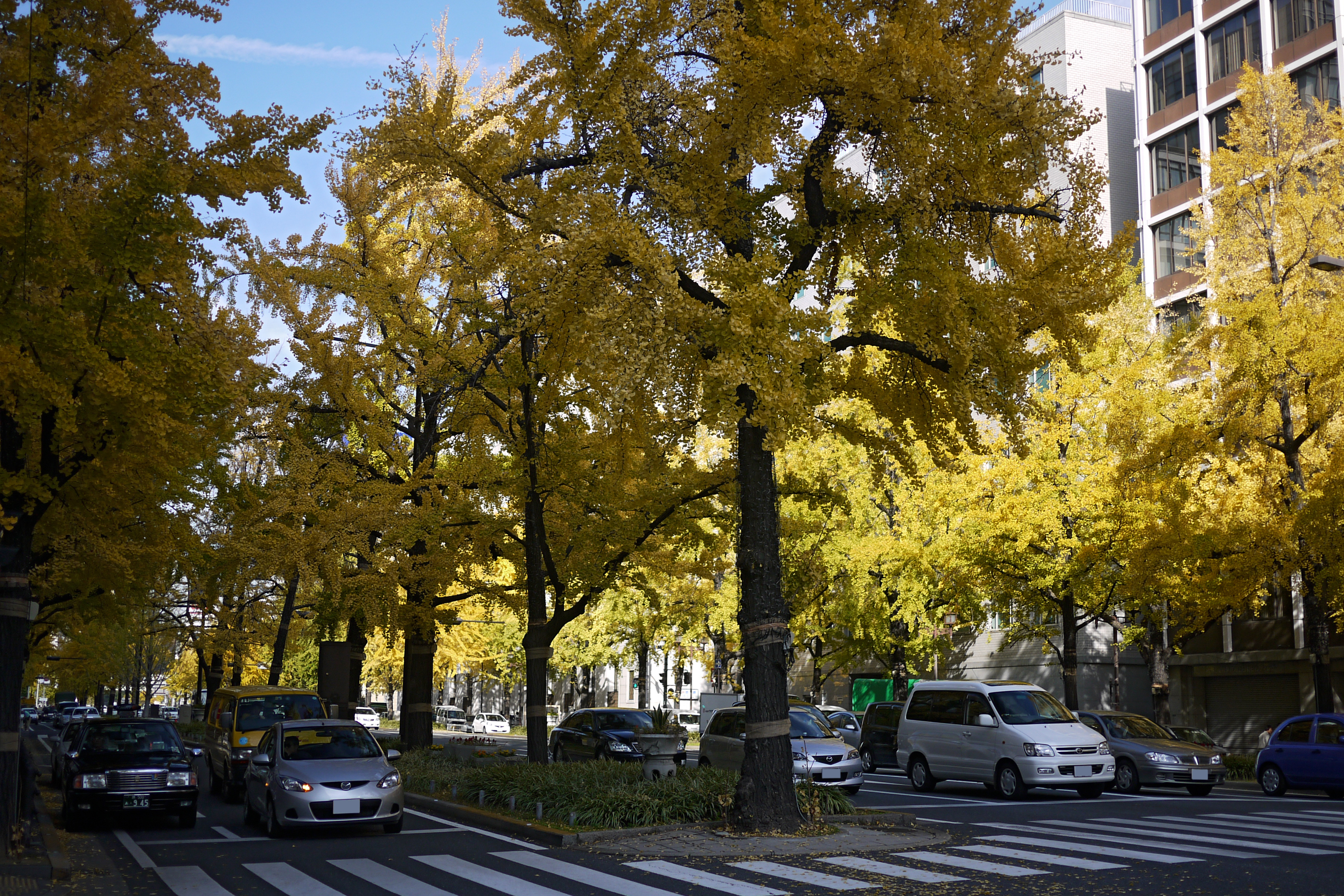 Midōsuji street in Osaka, Osaka prefecture, Japan